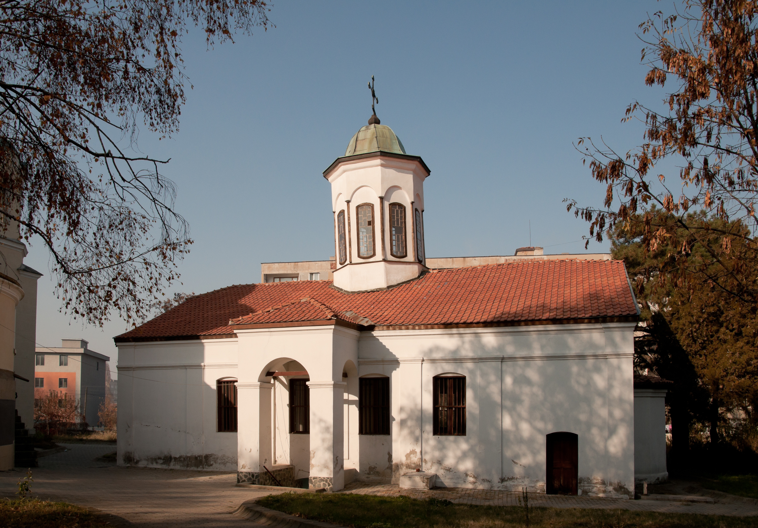 St Menas Old Church in Kyustendil, Bulgaria.